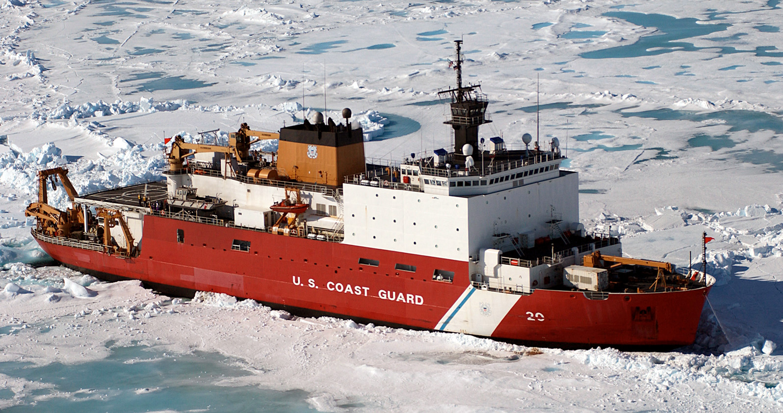 U.S. Coast Guard Cutter Healy (WAGB-20) sits approximately 100 miles north of Barrow, Alaska, in order to conduct scientific ice research. Scientists aboard the Healy are taking core samples from the bottom of the Arctic Ocean, June 18, 2005.